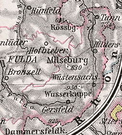 Detail from a map of Hesse.